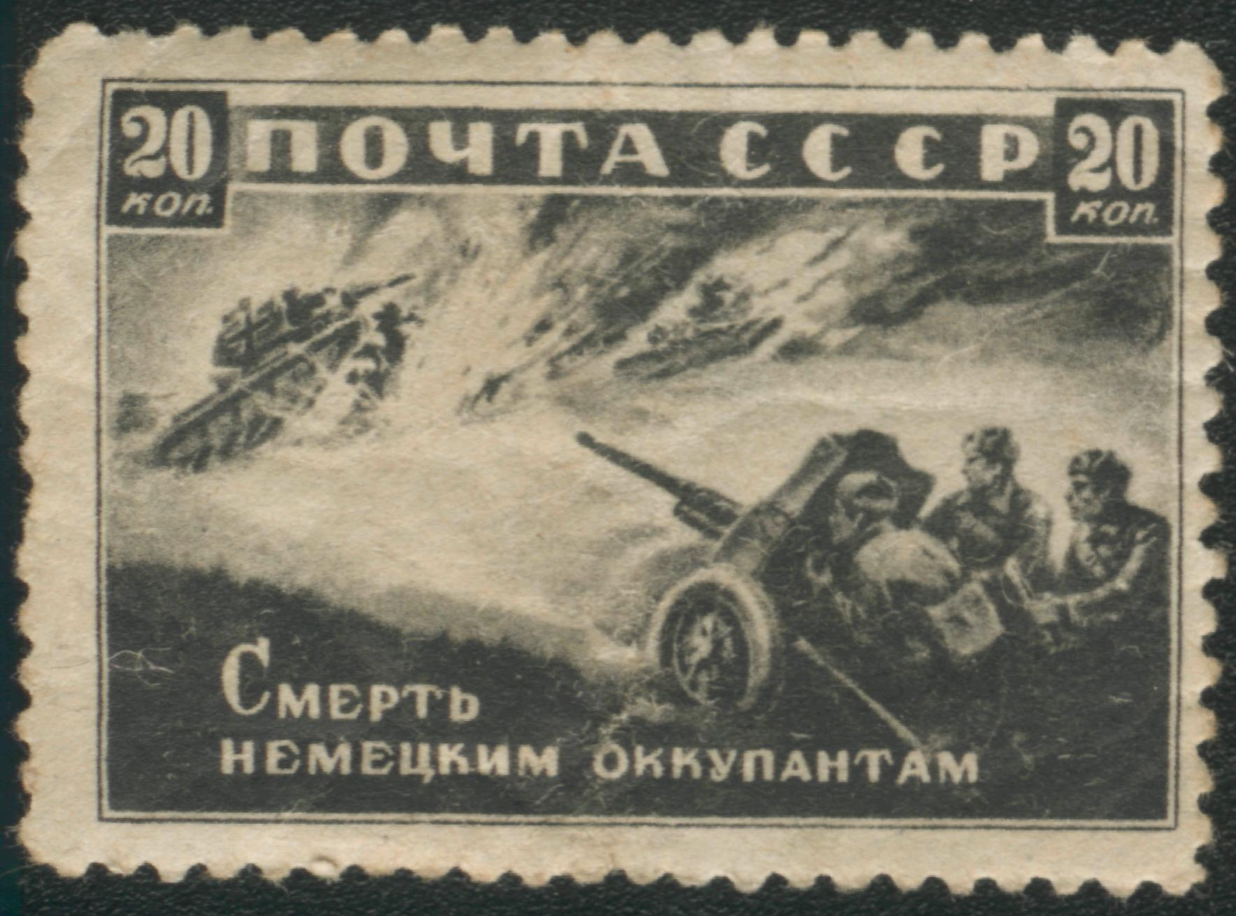 USSR stamp of 1943: Death to German invaders, 20 kop., unused. Shows an anti-tank gun of 45 caliber fighting a German tank Neubaufahrzeug. CPA No. 830.